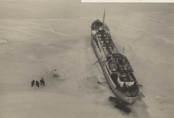 Norwegian oiler LIND, Skibs A/S Oljetransport, Bergen. Photo taken from an autogyro who just have delivered supplies to the ship, stuck in the ice. Callsign: LJUT; D.w.t.: 600; Br.t.: 461; DNV 1947 Nr L80